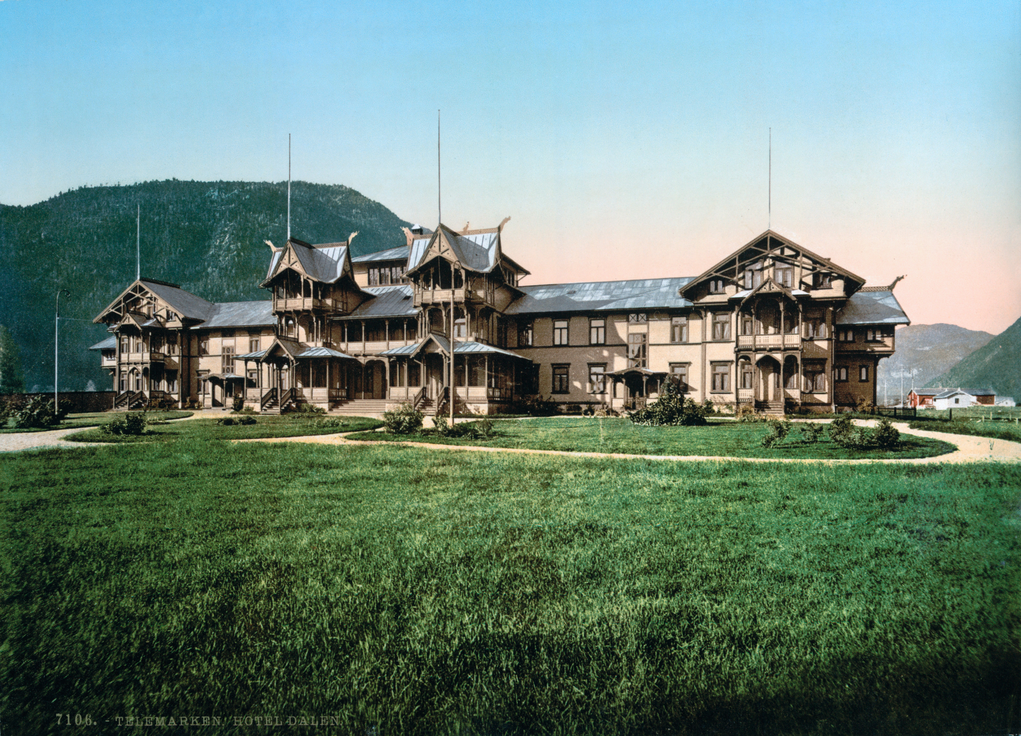 [Hotel Dalen, Telemarken (i.e, Telemark), Norway] [between ca. 1890 and ca. 1900]. 1 photomechanical print : photochrom, color. Notes: Title from the Detroit Publishing Co., Catalogue J--foreign section. Detroit, Mich. : Detroit Publishing Company, 1905. Print no. 7106. Forms part of: Landscape and marine views of Norway in the Photochrom print collection. Subjects: Norway--Telemark fylke. Format: Photochrom prints--Color--1890-1900. Repository: Library of Congress, Prints and Photographs Division, Washington, D.C. 20540 USA, Part Of: Landscape and marine views of Norway (DLC) 2001699563 More information about the Photochrom Print Collection is available at Persistent URL: Call Number: LOT 13432, no. 142 [item]